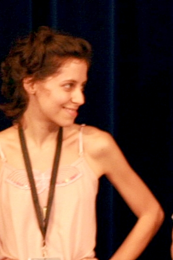 Argentinian actress Inés Efron in Cannes, 2007